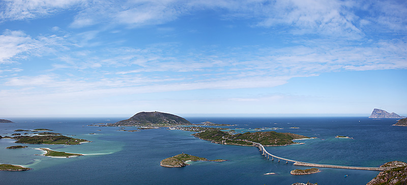 The islands Sommarøy, Hillesøy and Håja.